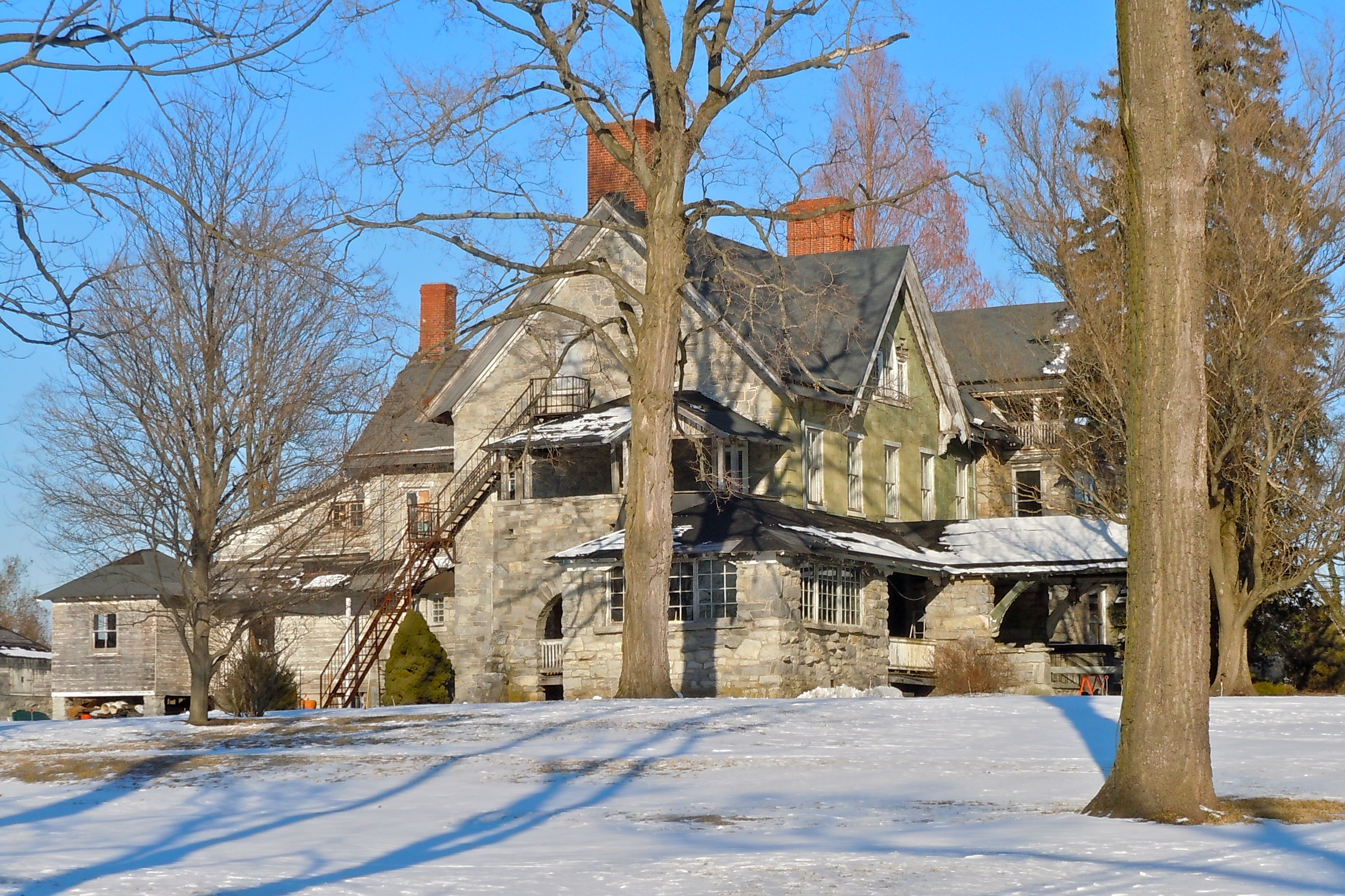 Joseph Price House on the NRHP since September 6, 1984, at 401 Clover Mill Road, West Whiteland Township, Chester County, PA